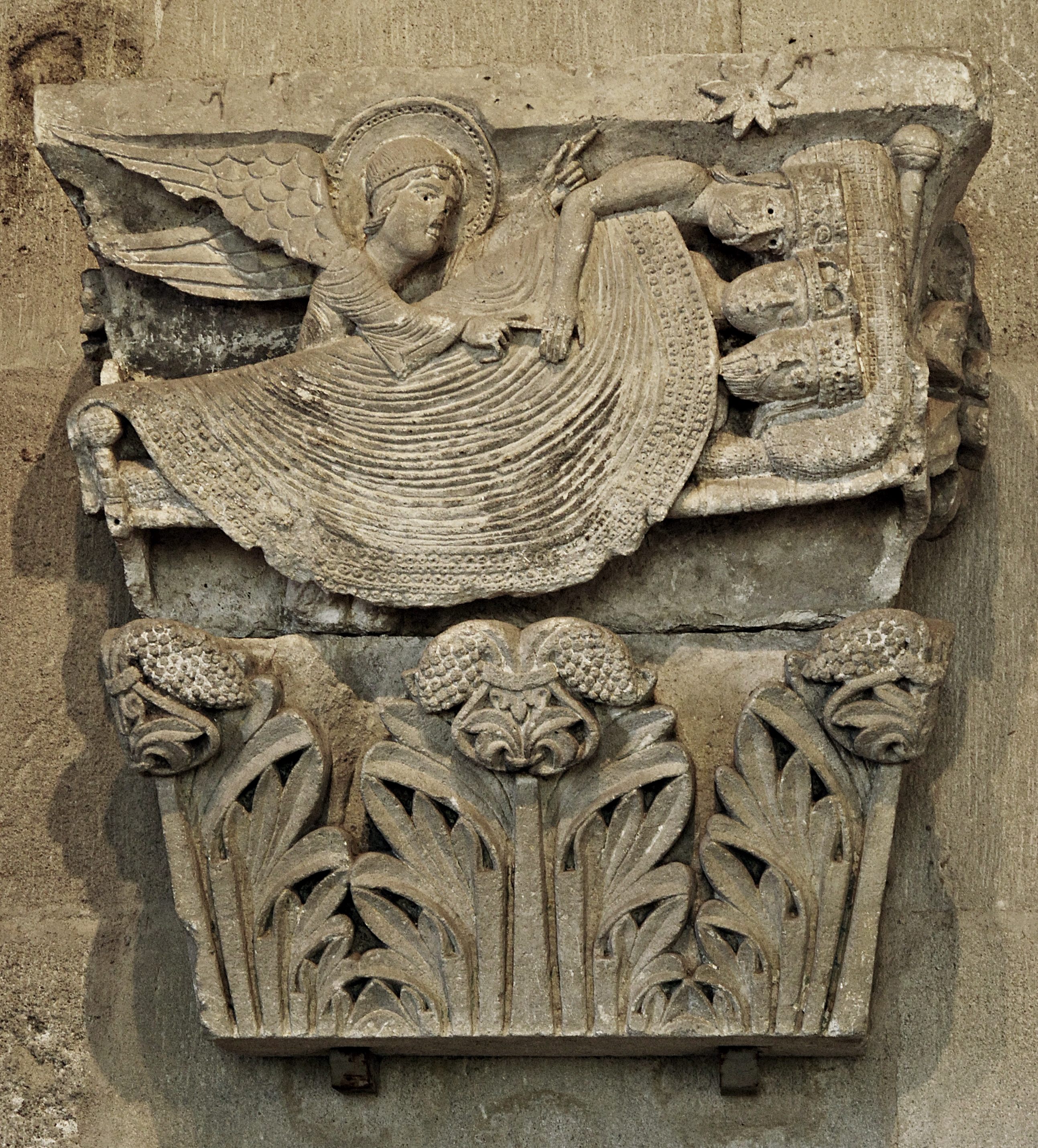 Dream of Three Wise Men (Magi). Capital from Autun cathedral. Sculptor: Gislebertus